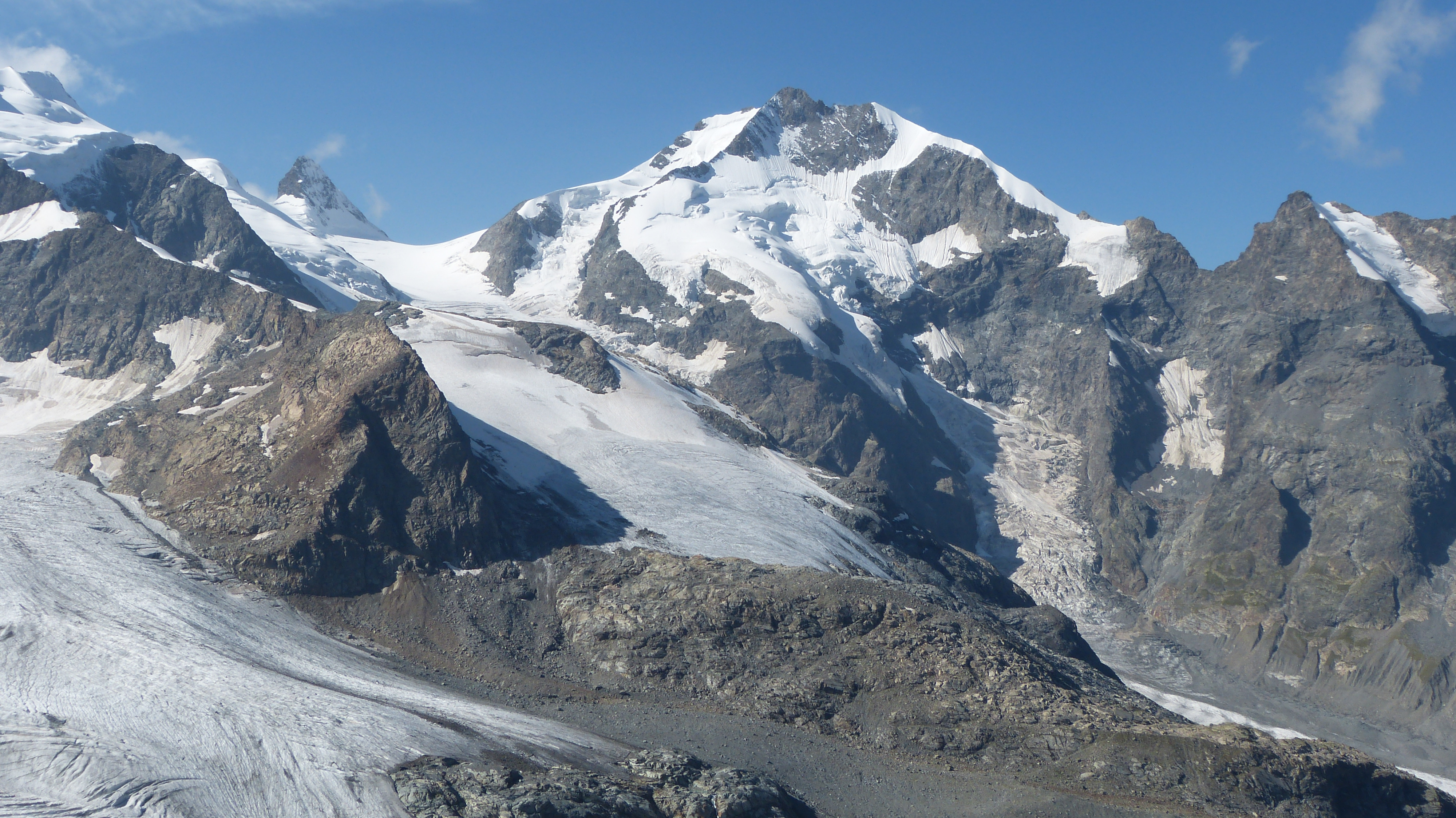 Piz Bernina (4049m), view from Diavolezza